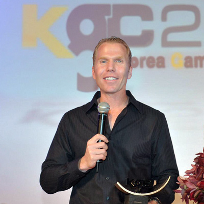 Michael Condrey accepting the award for game design of the year for Call of Duty: Modern Warfare 3 at Korea Games Conference in October of 2012.